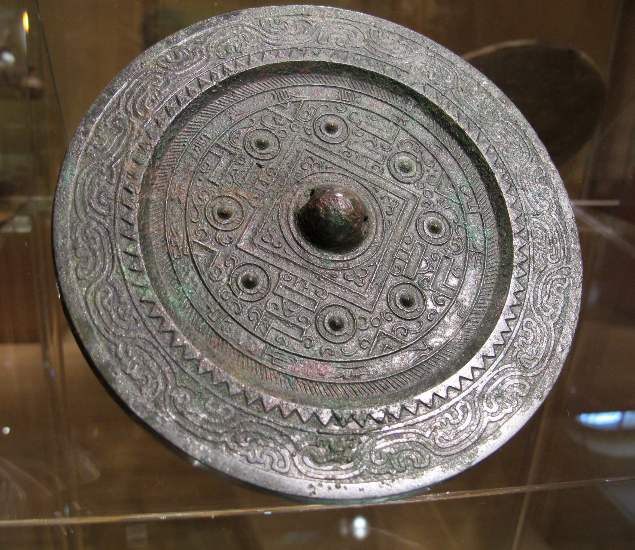 Han TLV mirror. Bronze, d 15,5 cm. Beginning of the Eastern Han Dynasty. Labit Museum Toulouse. Inv : D 1948 6